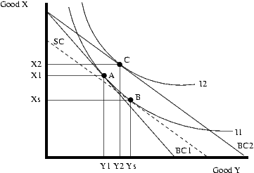 Diagram of substitution effect.